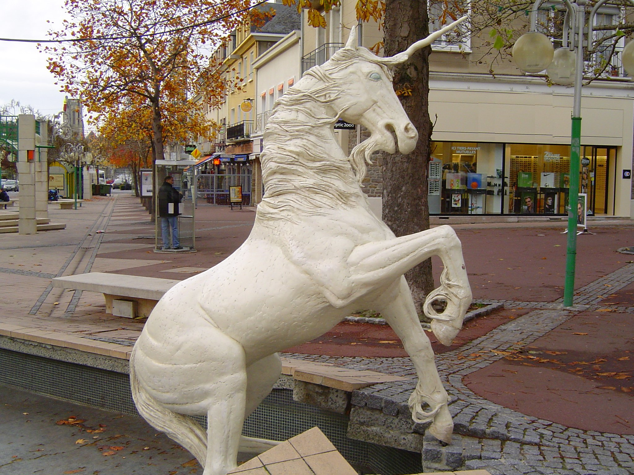 The statue of the unicorn, symbol of the town of Saint-Lô, Manche, France.